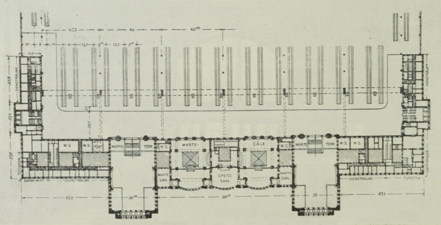 Leipzig Hauptbahnhof, ground plan